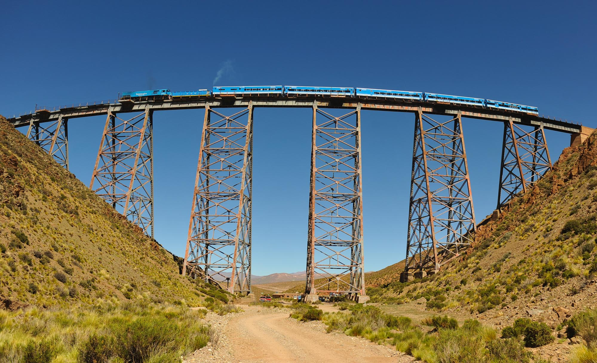 The Tren a las Nubes crossing a viaduct.